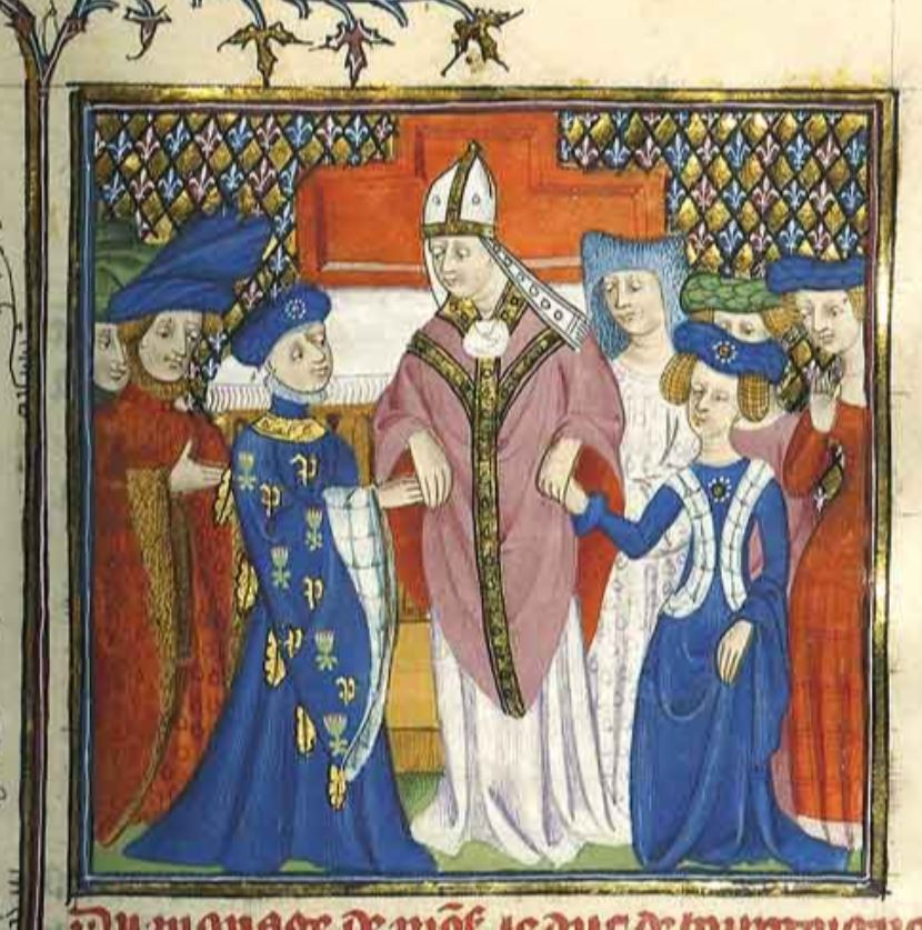 Mariage of duke Philip the Bold and Margaret III, Countess of Flanders - Grandes Chroniques de France (Paris, Bibliothèque nationale de France, Mss, fr. 2615, f. 399)